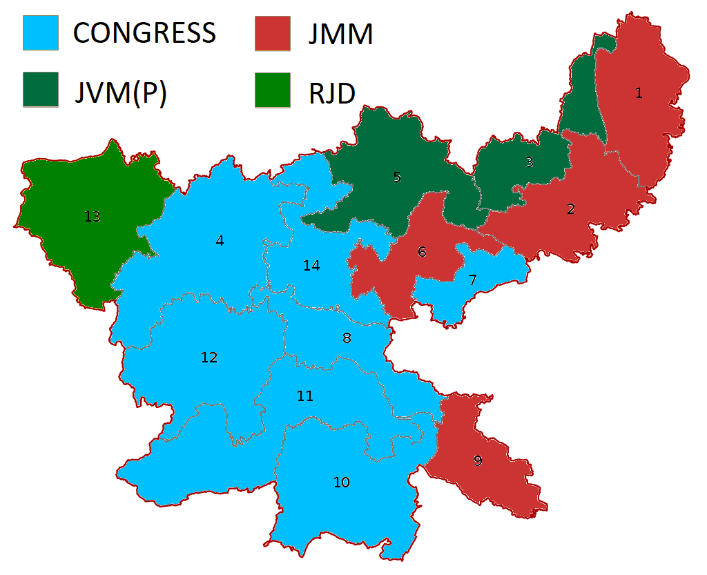 Seat Sharing among UPA Allies in Jharkhand in 2019 General Election